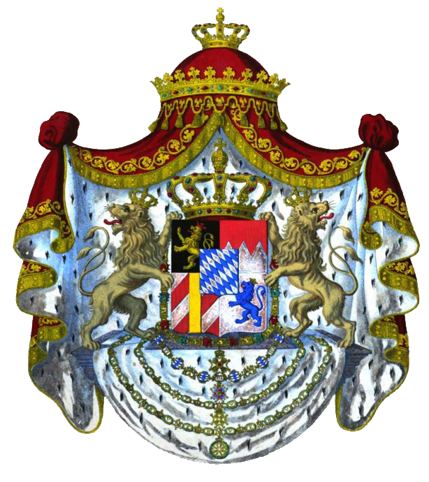 Kingdom of Bavaria